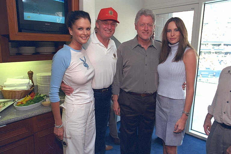 Bill Clinton and Donald Trump at the U.S. Open in 2000, Flushing, New York